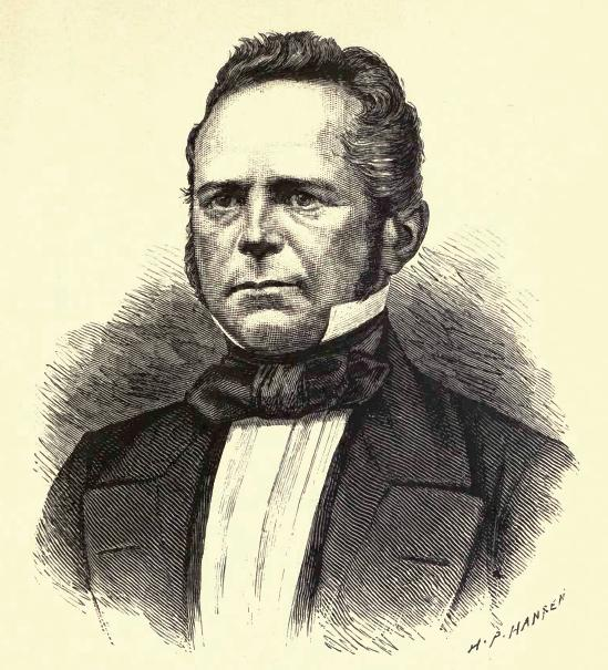 Søren Hjorth: Promotor of the first Danish railroad (1847) and inventor of the dynamo-electric principle (1854)